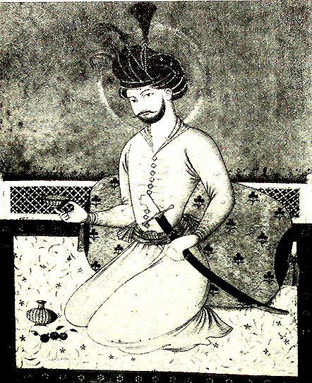 Shah Abbas II